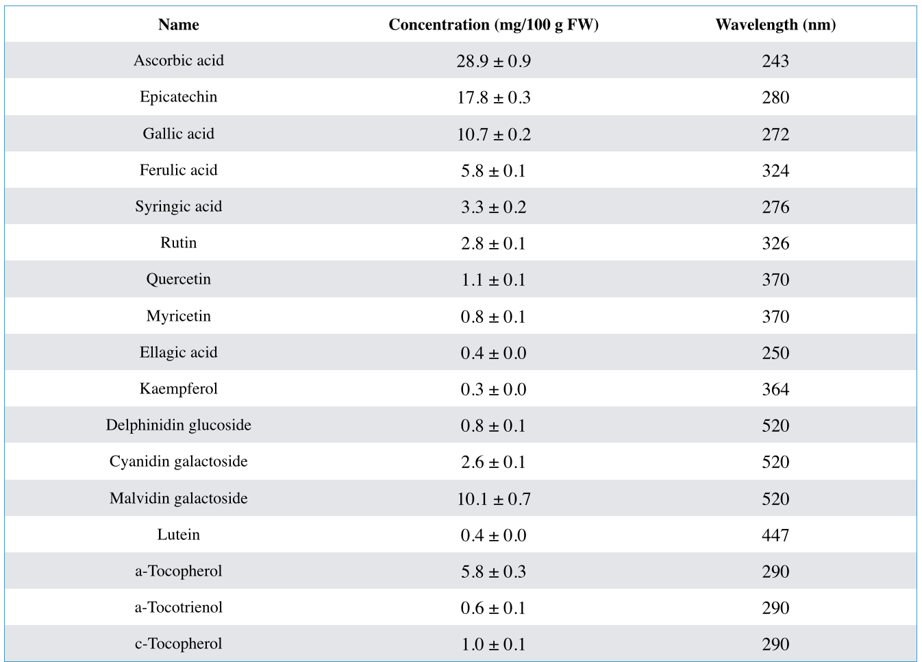 It miralce fruit Antioxidant